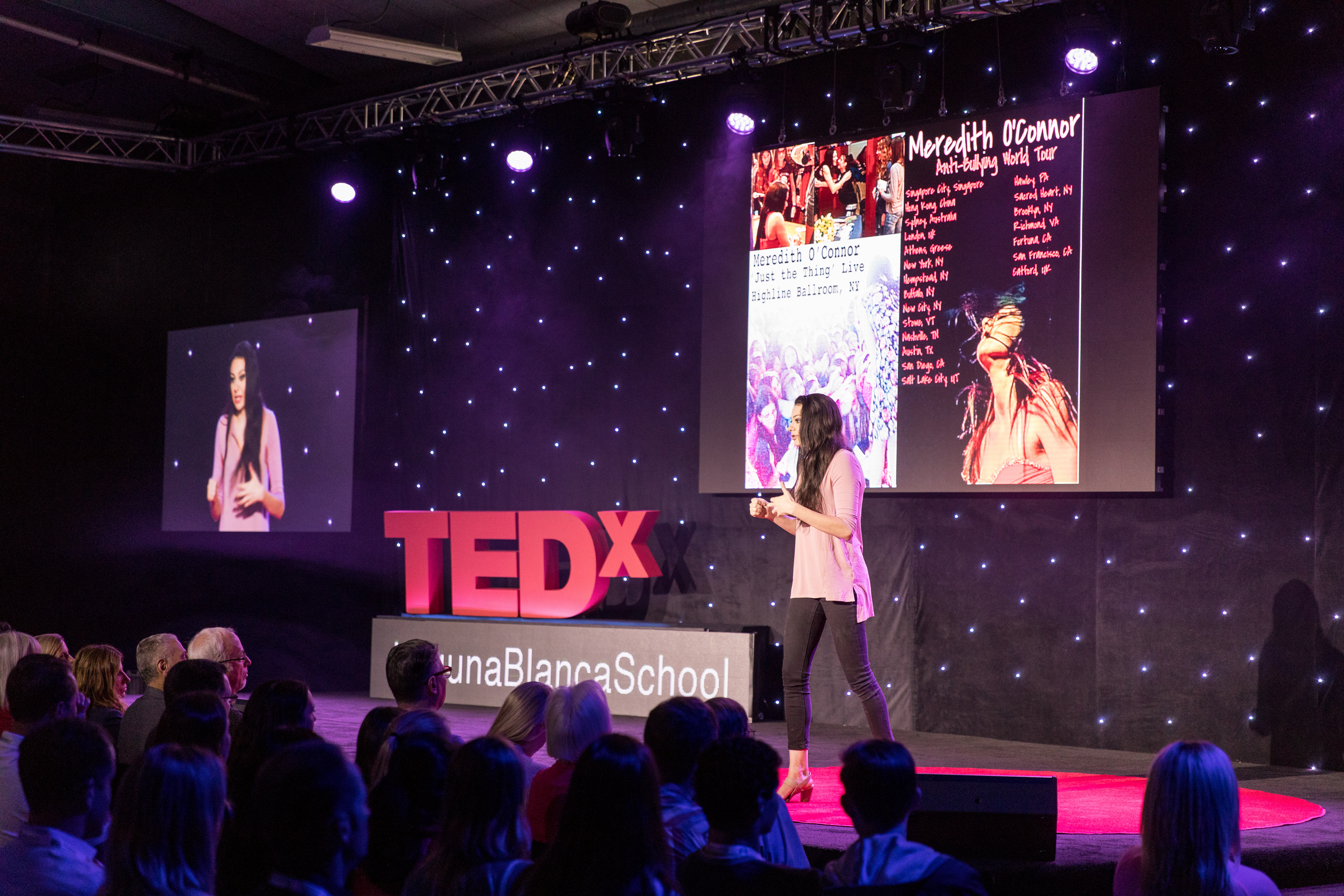 Meredith O'Connor, TED talk